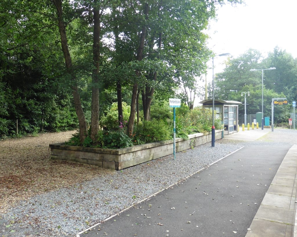 Railway platform, Pontaddulais